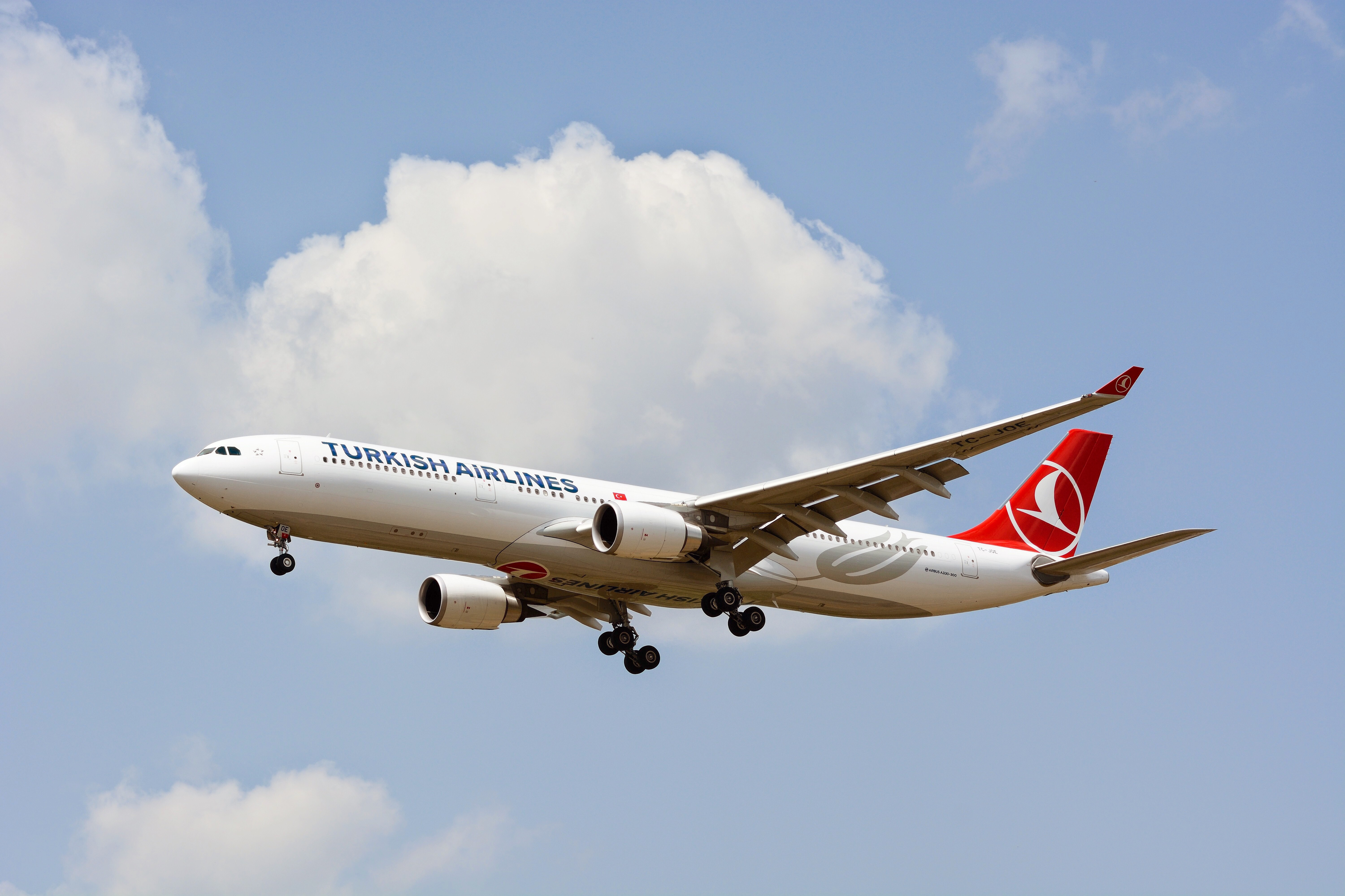 Turkish Airlines, Airbus A340-300 TC-JOE NRT